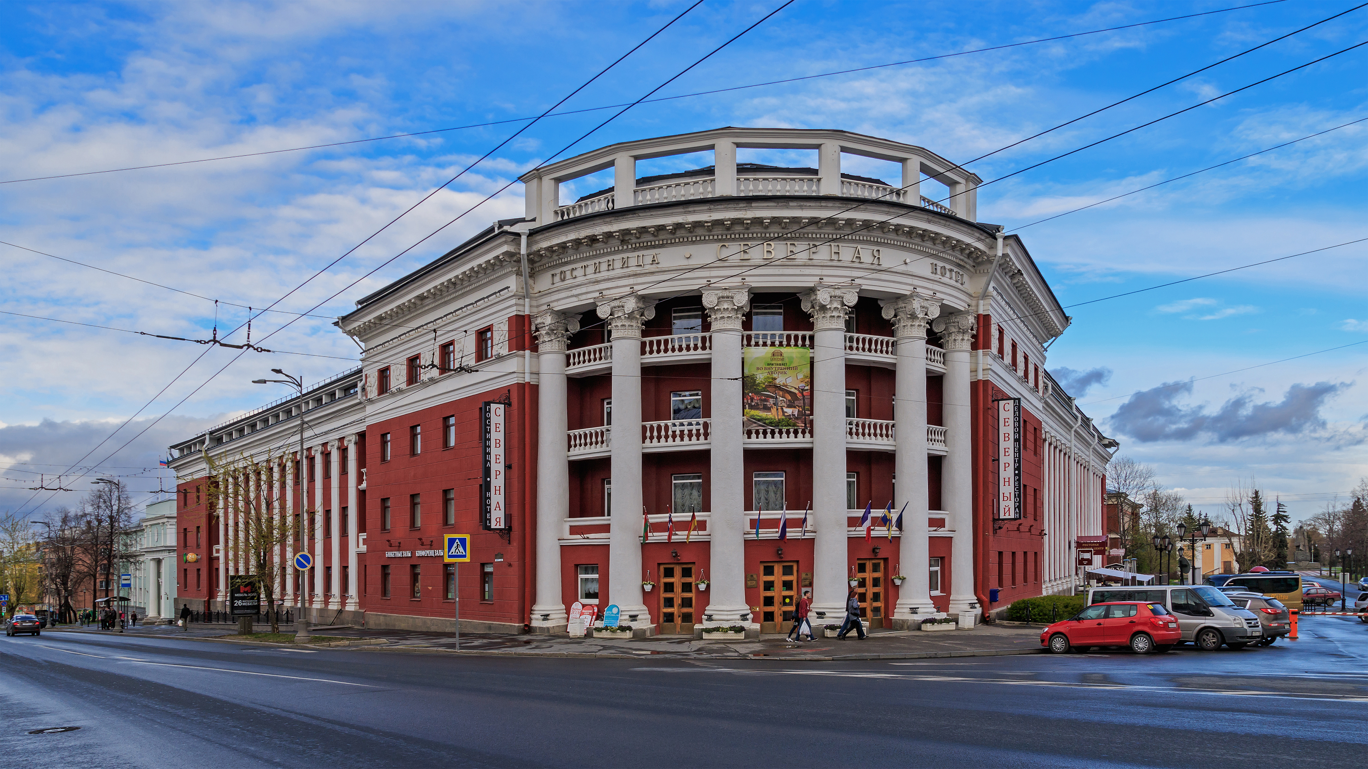 Hotel Severnaya in Petrozavodsk, Republic of Karelia (Russia).